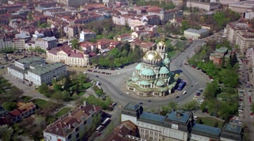 Downtown Sofia.